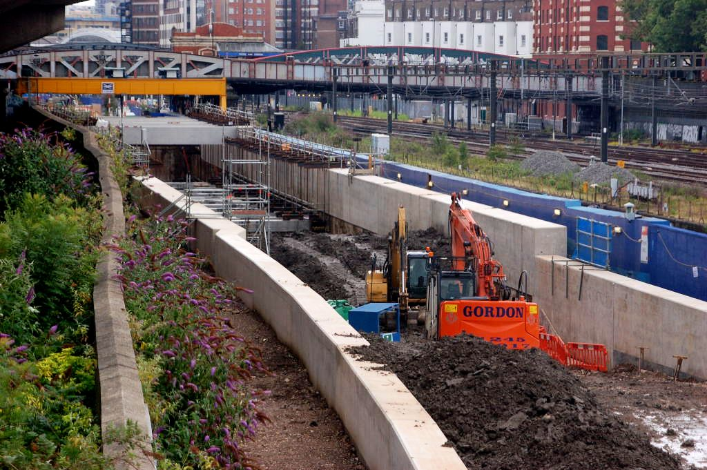 Construction of the Crossrail Tunnel portal west of Royal Oak Station, London, July 2011. This photograph was taken from the Westbourne Passage footbridge, to the west of Royal Oak Station; the tunnel mouth is roughly 200 metres from the bridge. The horizontal orange object above the concrete construction is a mobile crane moving on rails.